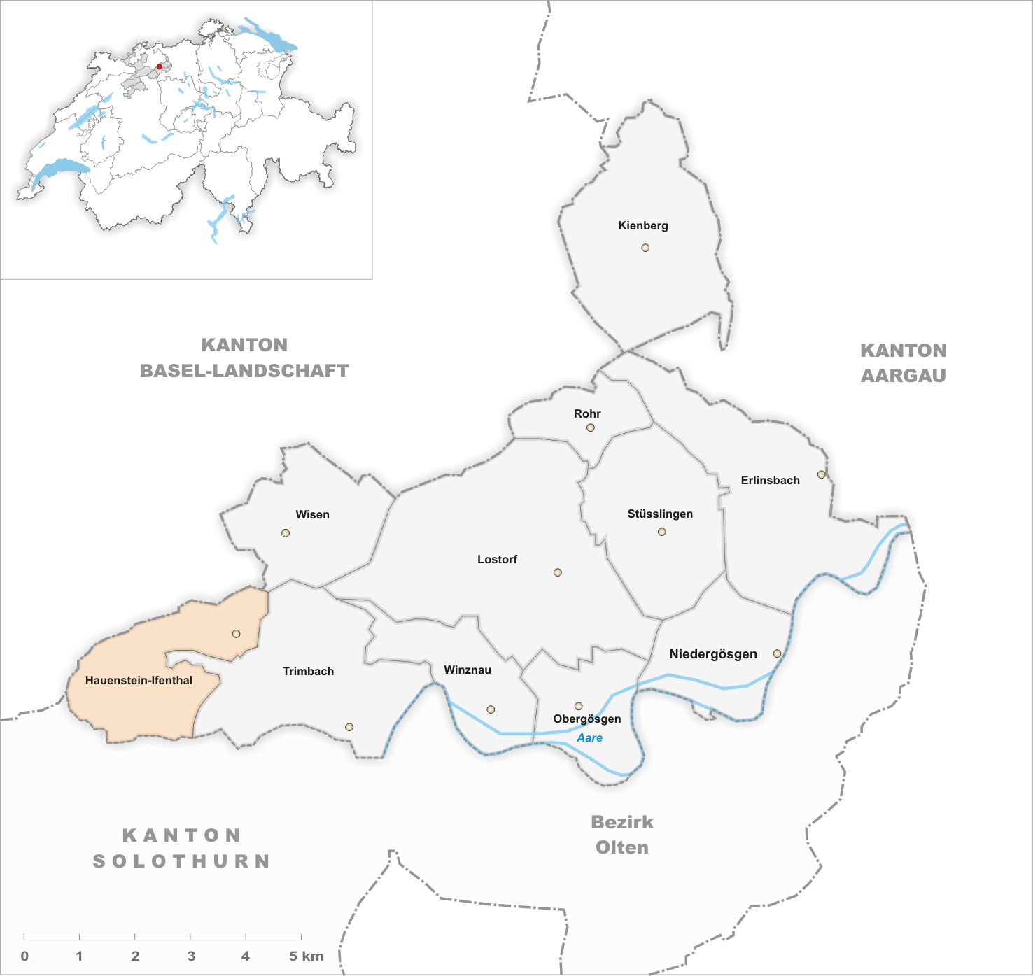 Municipality Hauenstein-Ifenthal